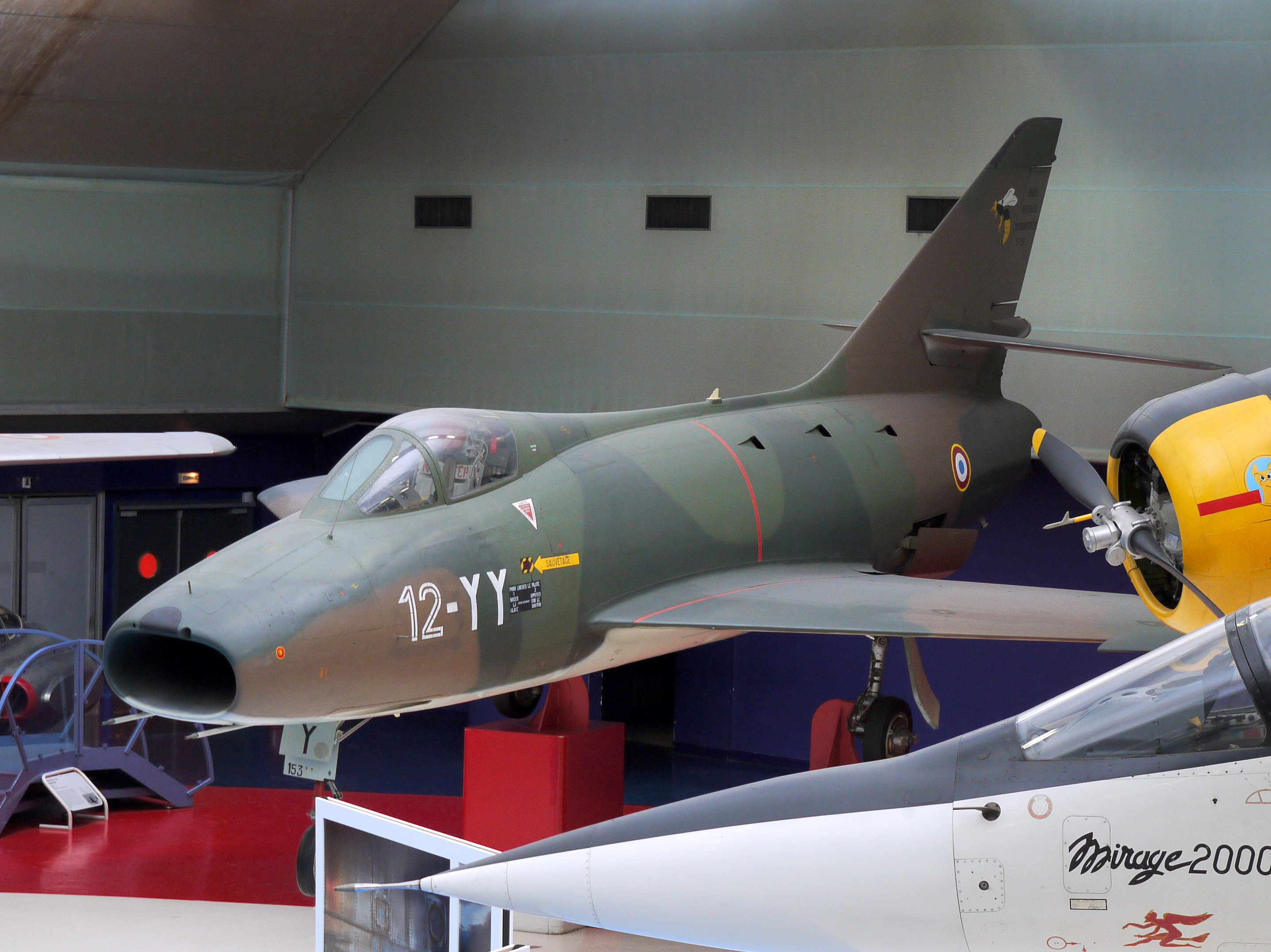 Fighter aircraft Super Mystere B2 (1956), Museum of Air and Space Paris, Le Bourget (France)